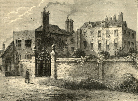 Tradescant's House, South Lambeth (from Tennant), wood engraving, ca. 1883.